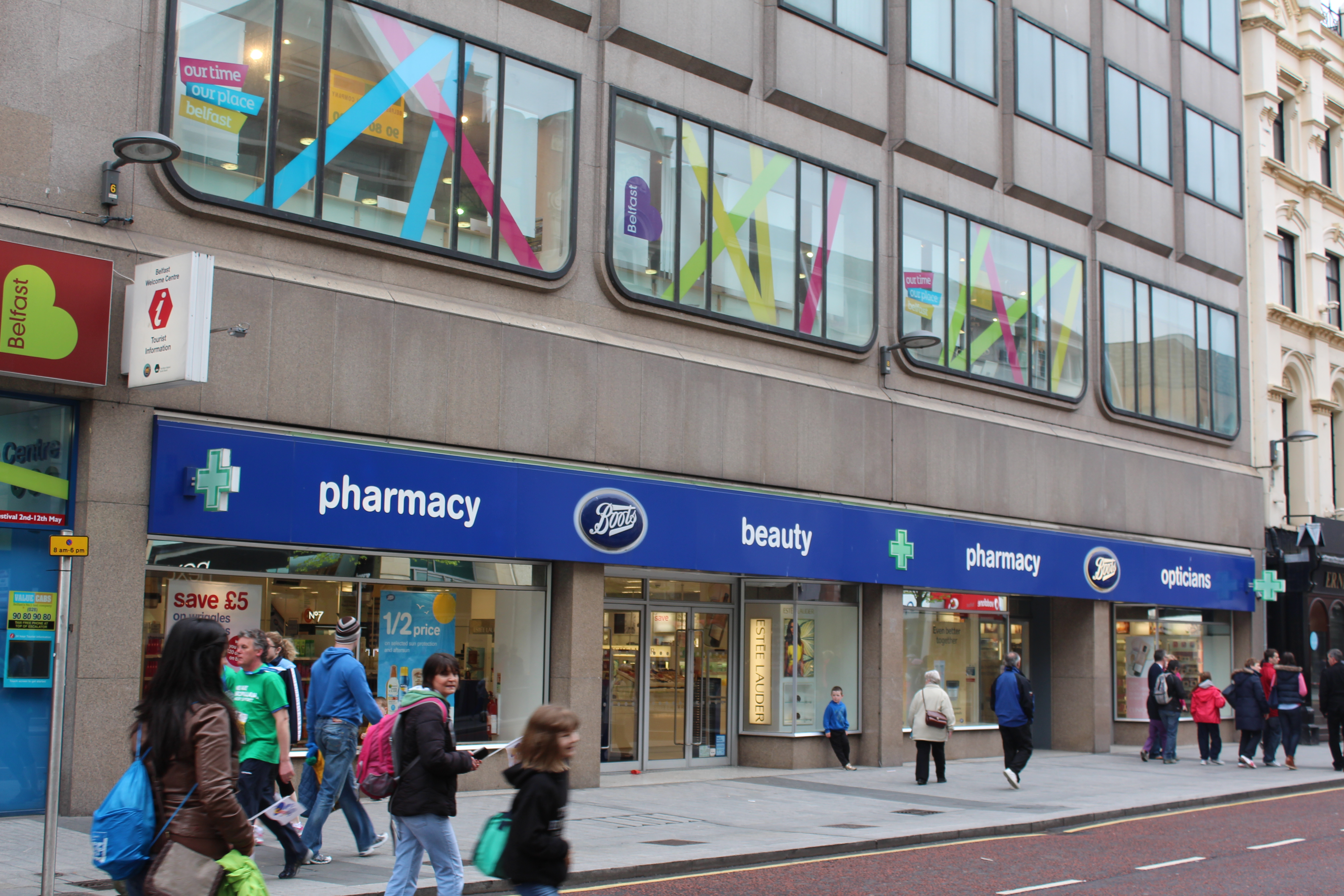 Boots, Donegall Place, Belfast, Northern Ireland, May 2013